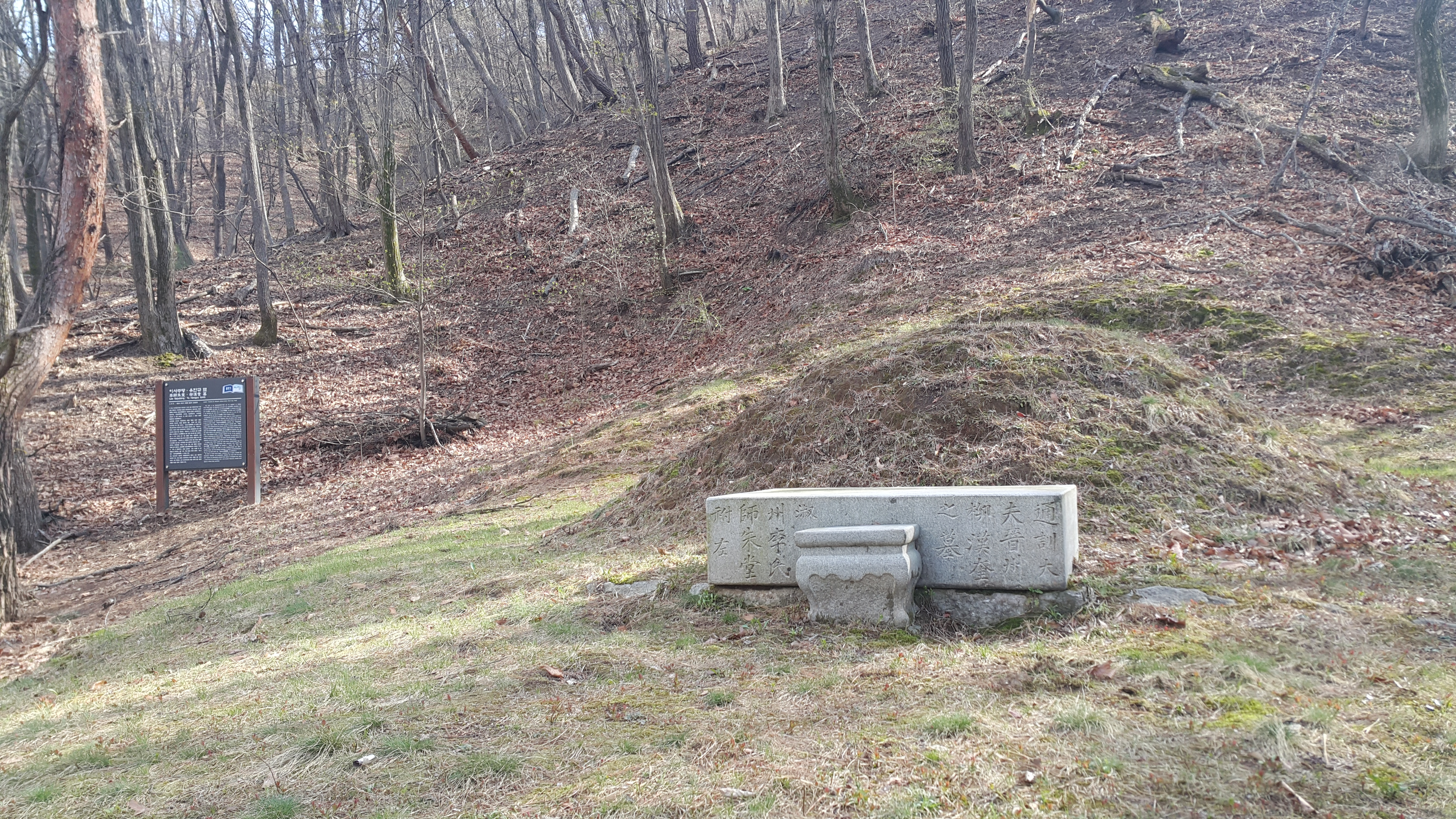 Grave of Lee Sajudang in Wangsan-ri, Moheyeon-eup